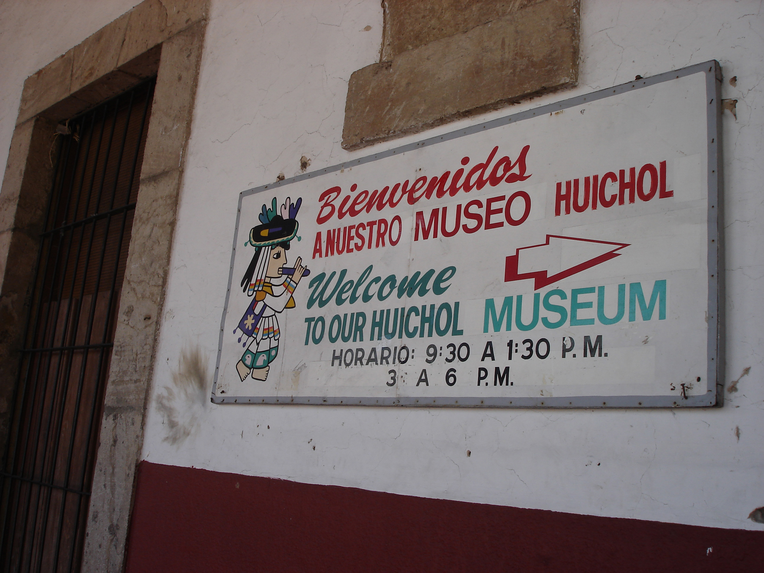 Museo Huichol